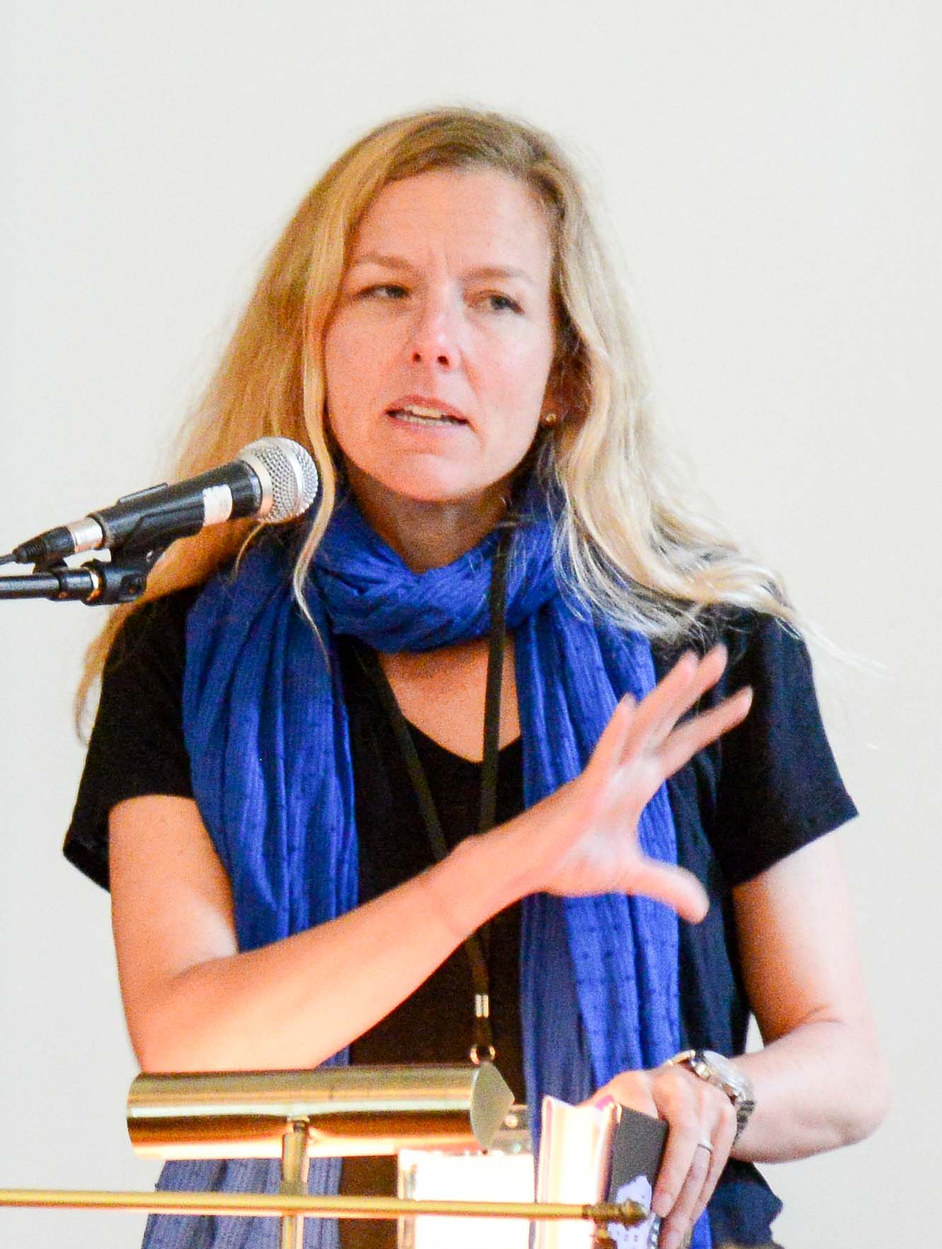 Claire Cameron at the Eden Mills Writer's Festival in 2017